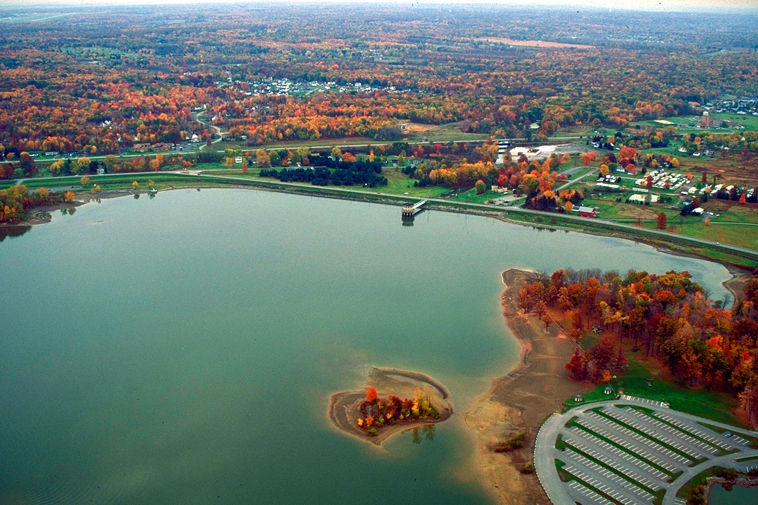 Mosquito Creek Reservoir in Trumbull County, Ohio, USA. The town of Cortland, Ohio is immediately to the left of the picture. Mosquito Creek State Park completely surrounds the lake. View is downstream to the south. Ohio State Route 5 is visible across the middle of the picture.